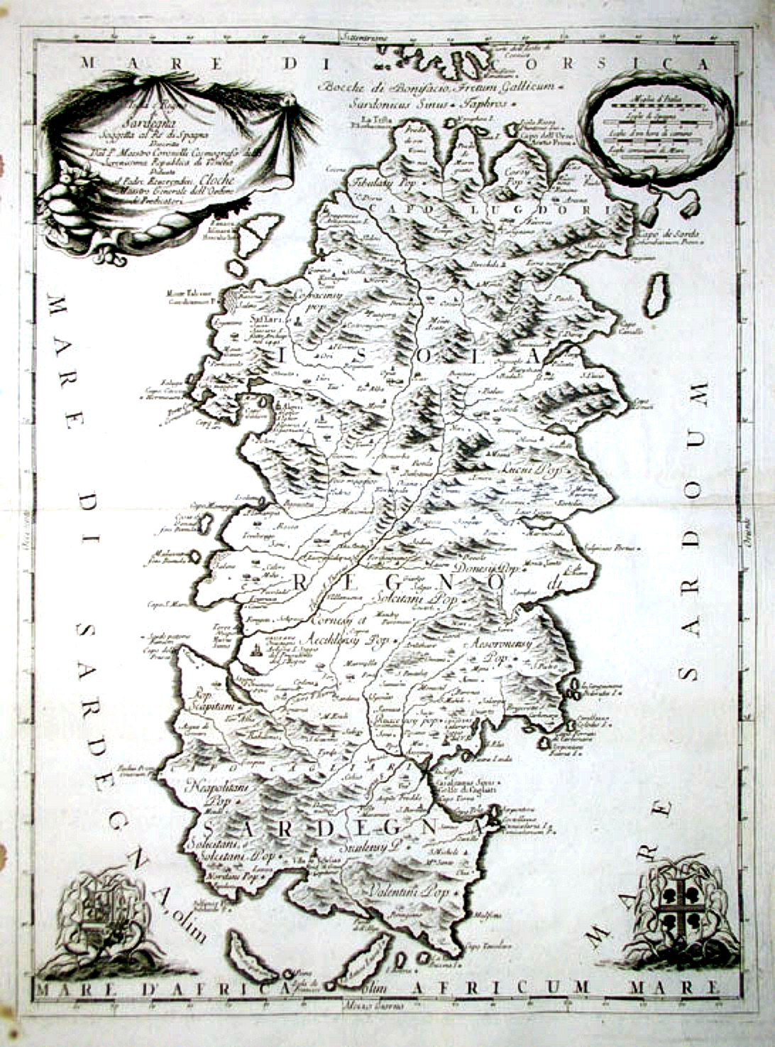 Map of Sardinia by Vincenzo Coronelli, "Isola é Regno di Sardegna Soggetta al Ré di Spagna Descritta Dal P. Maestro Coronelli"